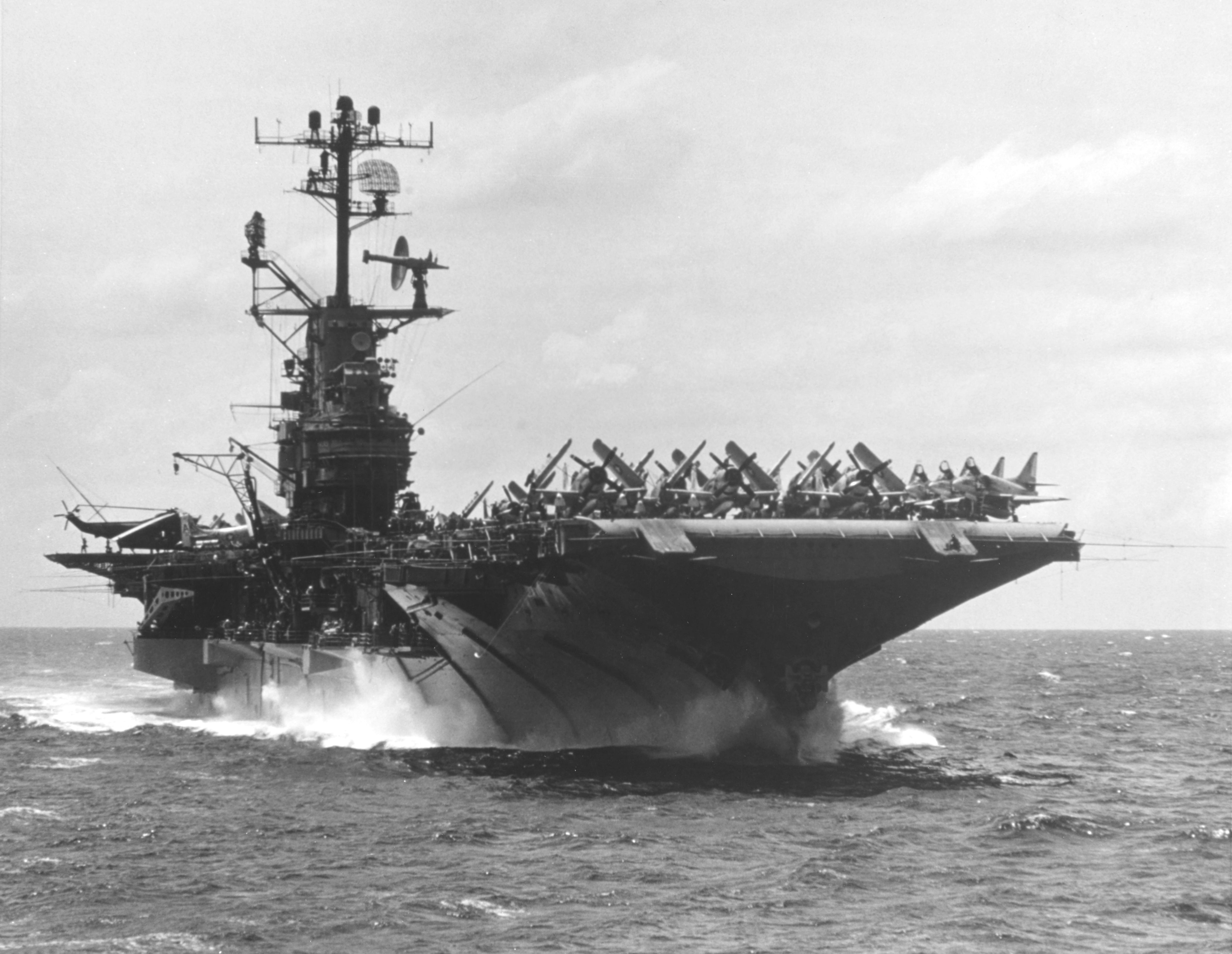 The U.S. Navy aircraft carrier USS Intrepid (CVS-11) steaming in the South China Sea on 13 September 1966, with aircraft of Attack Carrier Air Wing 10 (CVW-10) parked on the flight deck. CVW-10 was assigned to the Intrepid for a deployment to Vietnam from 4 April to 21 November 1966.